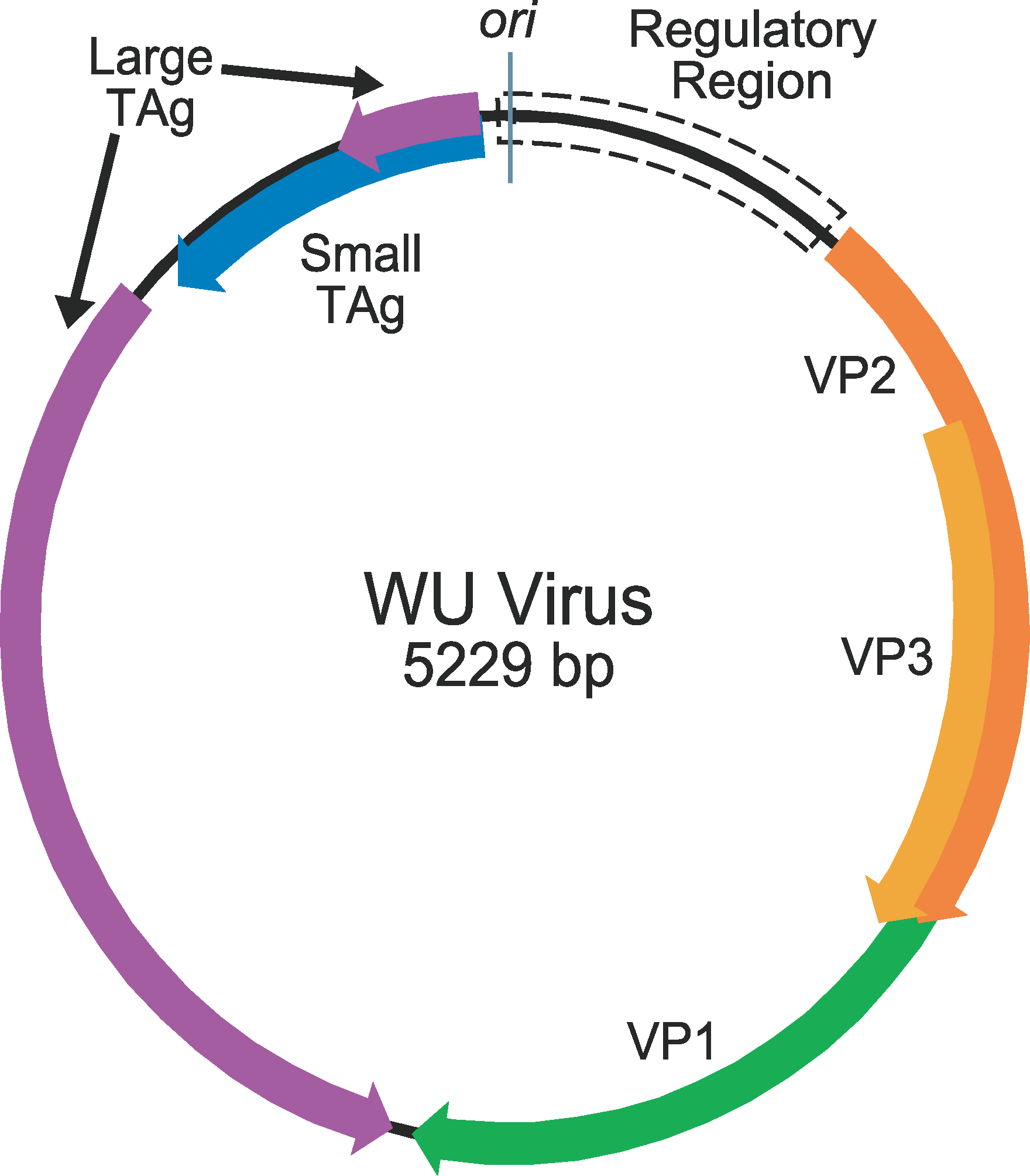 Schematic diagram of the genome organization of WU virus, a human polyomavirus with genome structure representative of the family. The "early region" is shown at left and encodes two alternatively spliced proteins, the small and large tumor antigens. The "late region" is shown at right and encodes three viral capsid structural proteins. The regulatory region contains the promoters and transcriptional start sites for both regions, and the origin of replication. The whole genome is 5229 base pairs long and consists of circular double-stranded DNA.